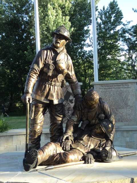 The Fallen Firefighter Memorial at NW 1.0 besides the Boise Fire Department's main training facility.